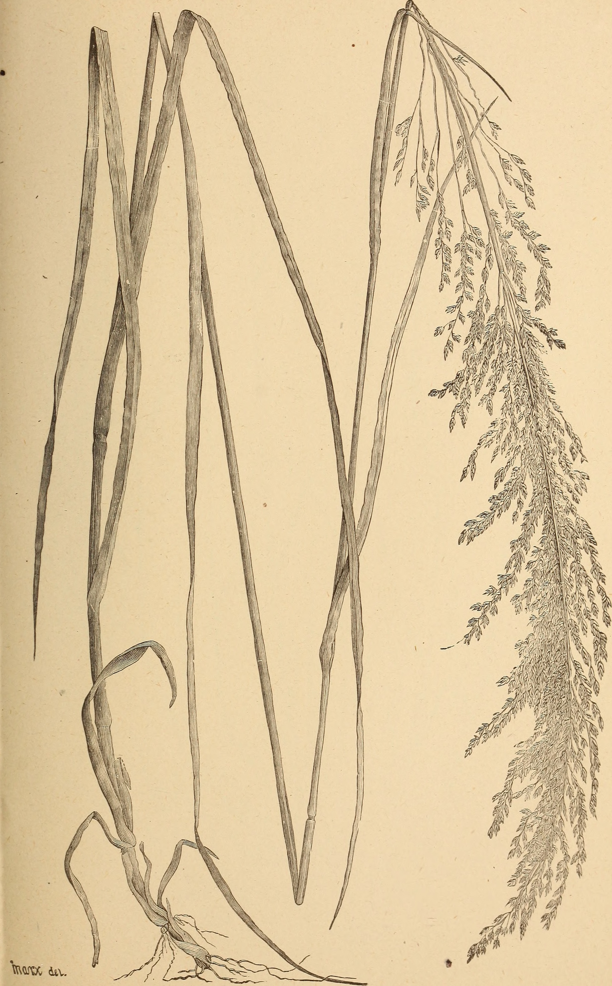 Title: The agricultural grasses of the United States Year: 1884 (1880s) Authors: Vasey, George, 1822-1893; Richardson, Clifford, 1856-1932; United States. Division of Botany Subjects: Grasses; Forage plants Publisher: Washington, Govt. print. off. Text Appearing Before Image: Plate 98. Text Appearing After Image: POA SEROTINA.